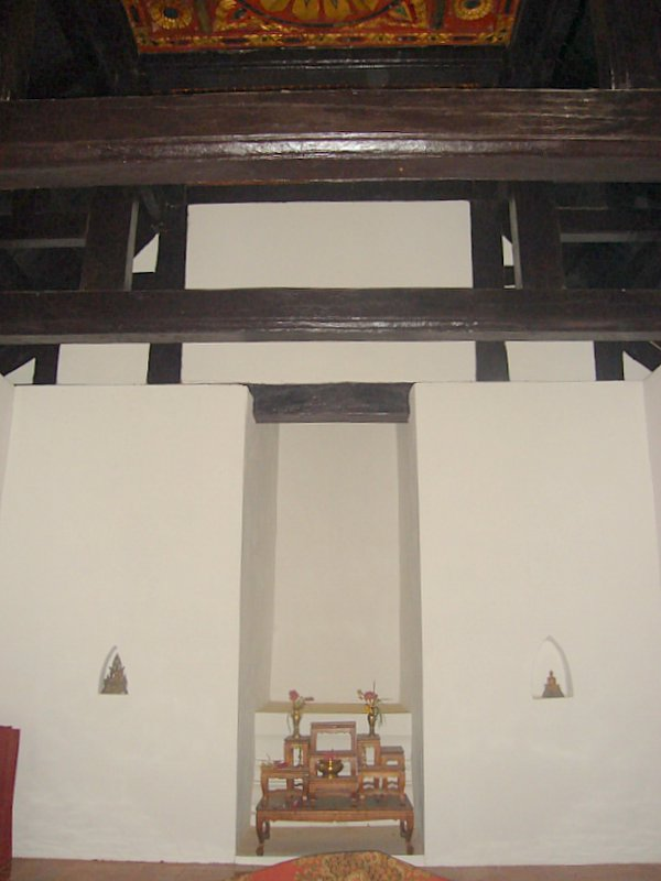 picture of Wat Phra Fang temple Location: Wat Phra Fang (Wat Phrafangsawangkabureemuneenat) Ban Phra Fang, Pha Juk subdistrict, Mueang Uttaradit, Uttaradit Province, Thailand.